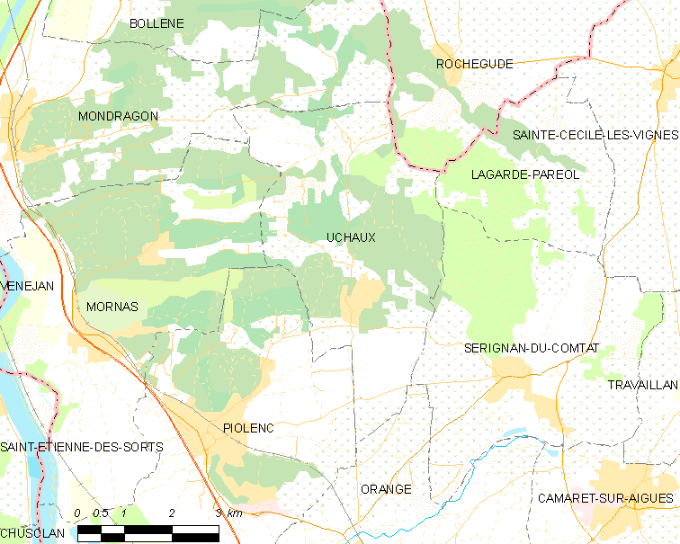 Map of French municipality Uchaux